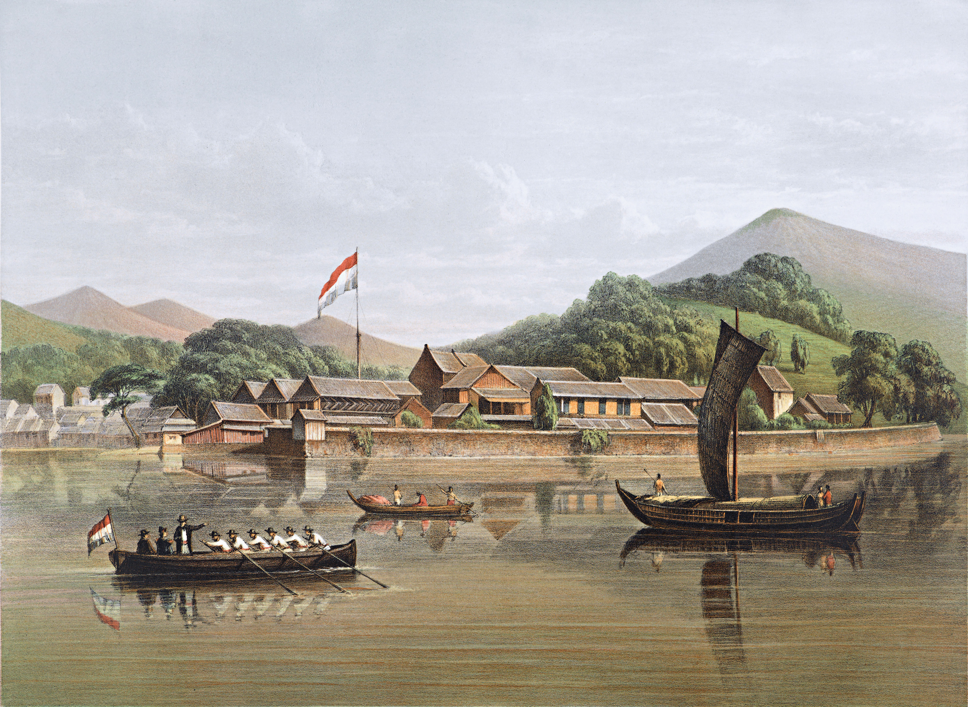 View on Dejima. Chromolithograph by C.W. Mieling after a painting by J.M. van Lijnden